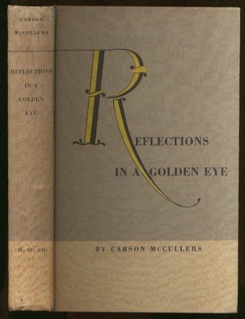 Carson McCullers, Reflections in a Golden Eye, book cover, 1941